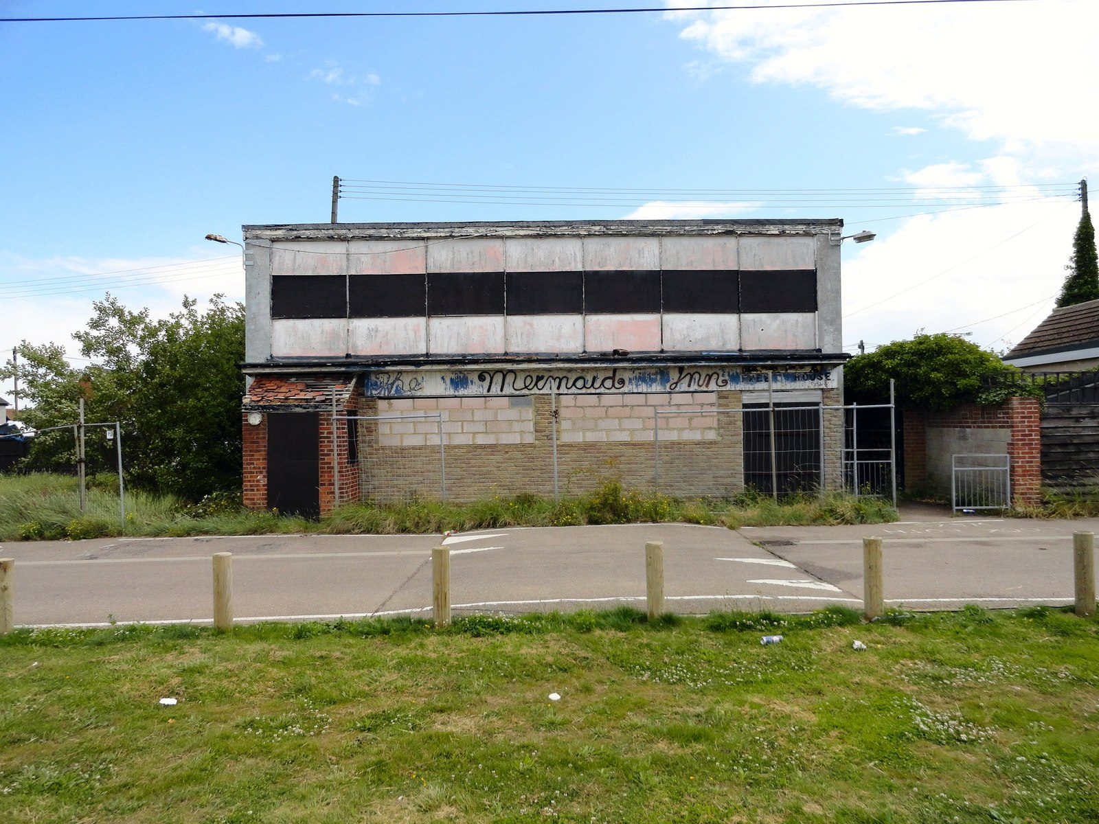 The former Mermaid Inn - Located in Brooklands Gardens, Jaywick